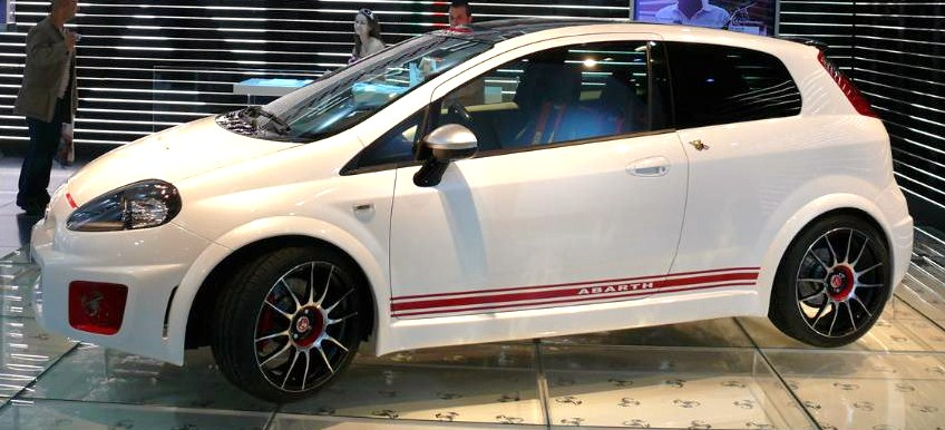 Abarth Grande Punto Essesse Turbo 180 HP 1,4 litres